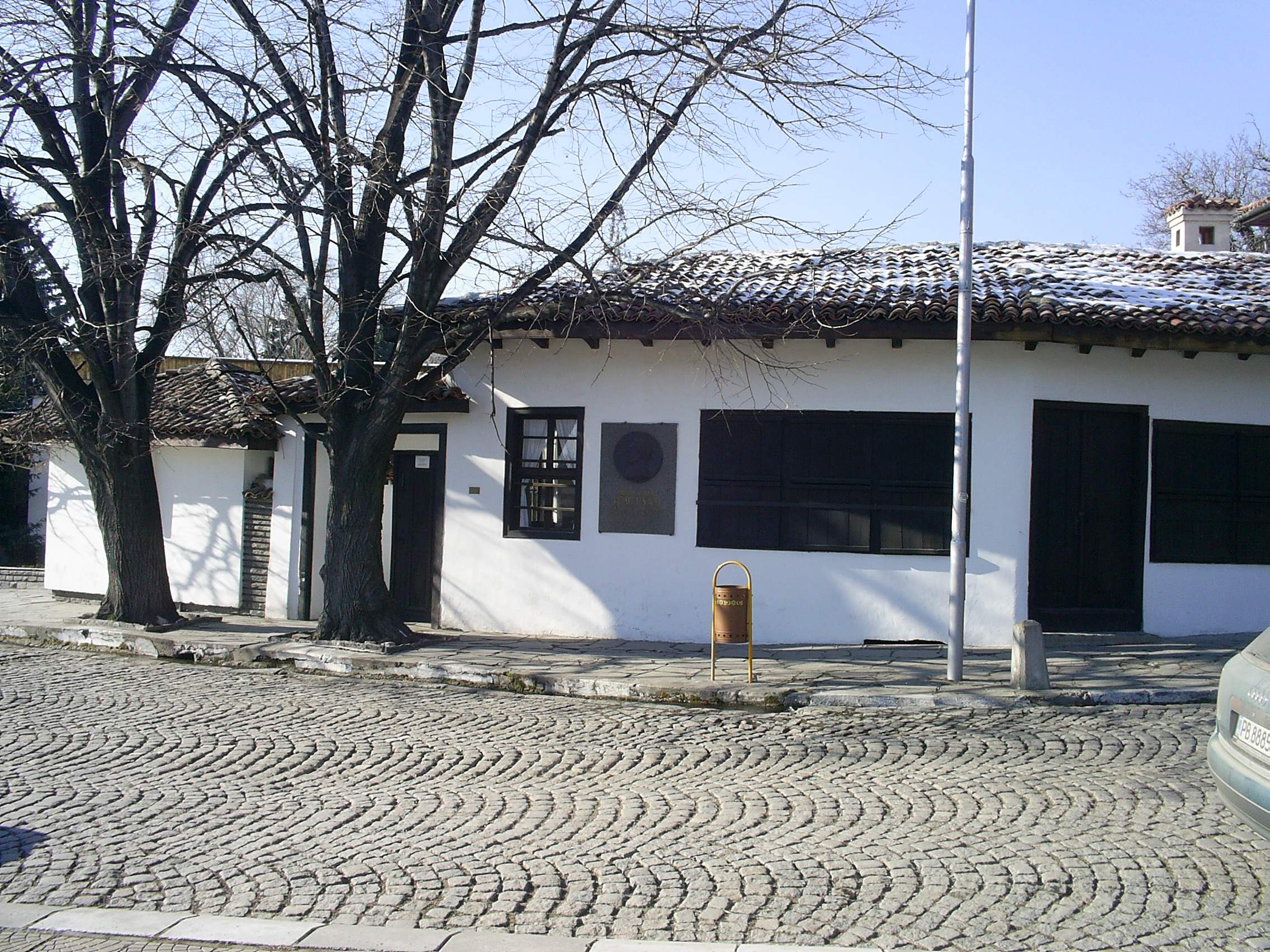 The house of birth of Bulgarian writer Ivan Vazov. Sopot, Bulgaria